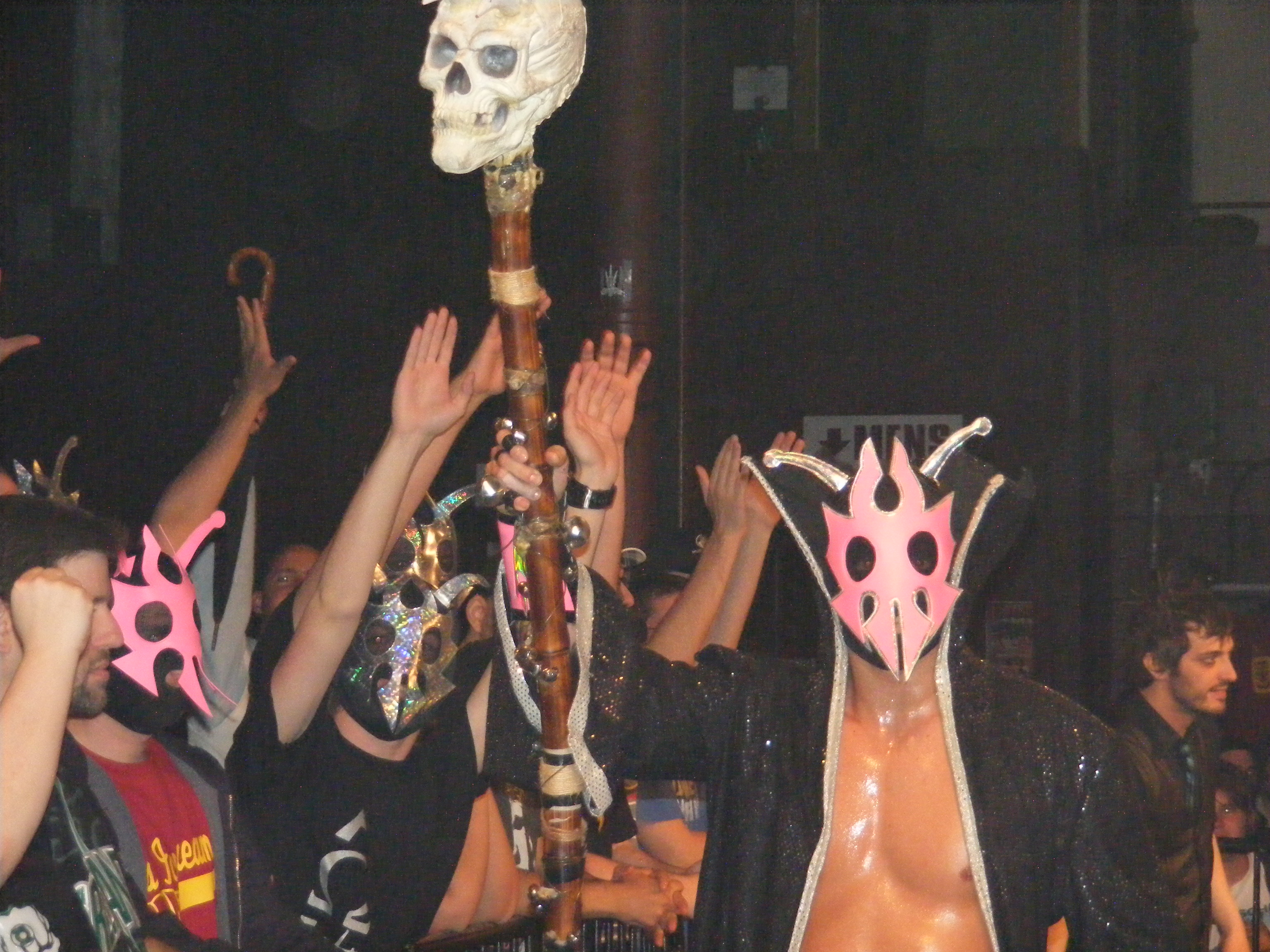 Professional wrestler UltraMantis Black at a Chikara show on April 25, 2010